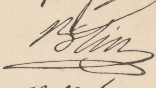 François-Pierre Blin (1756-1834), French deputy in 1789: signature of the "Serment du Jeu de Paume".